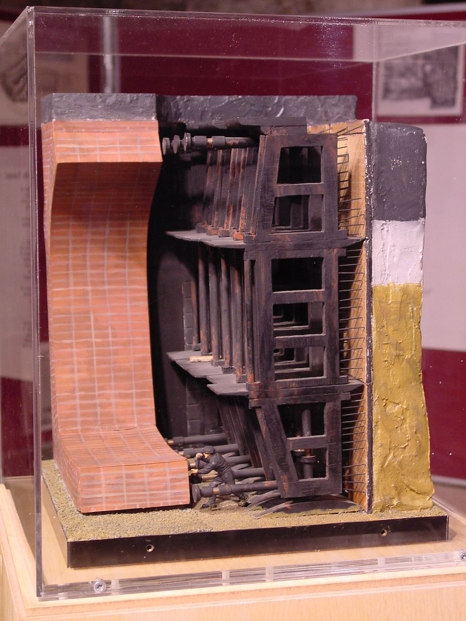 A scale model of Marc Brunel's tunnelling shield in the Brunel Museum at Rotherhithe (Photo: Duncan Kimball)